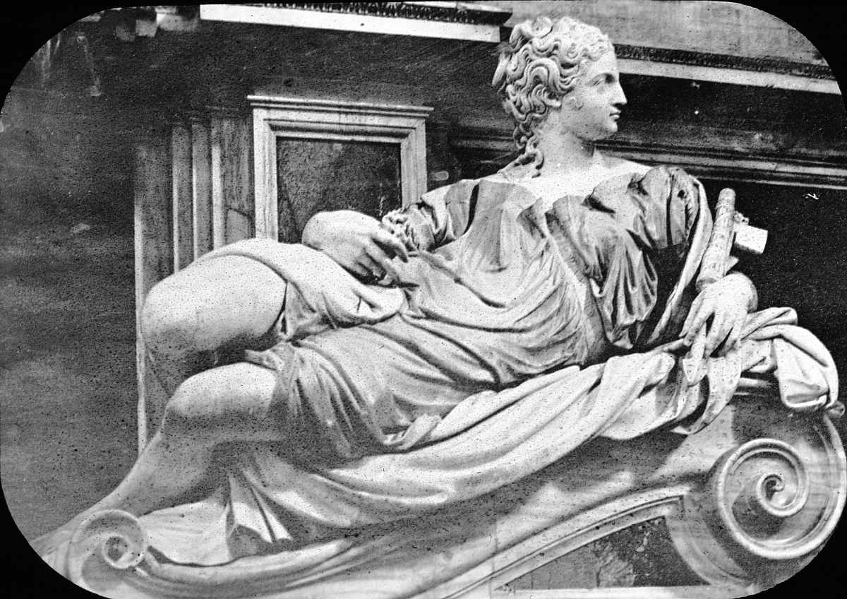 Depicted person: Possibly Giulia Farnese. “Figure of Justice on the base”.